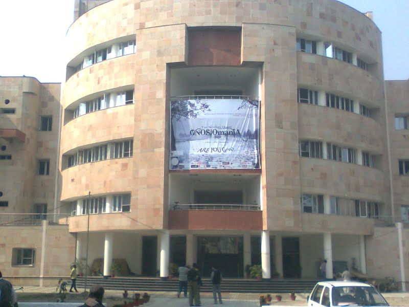 main building